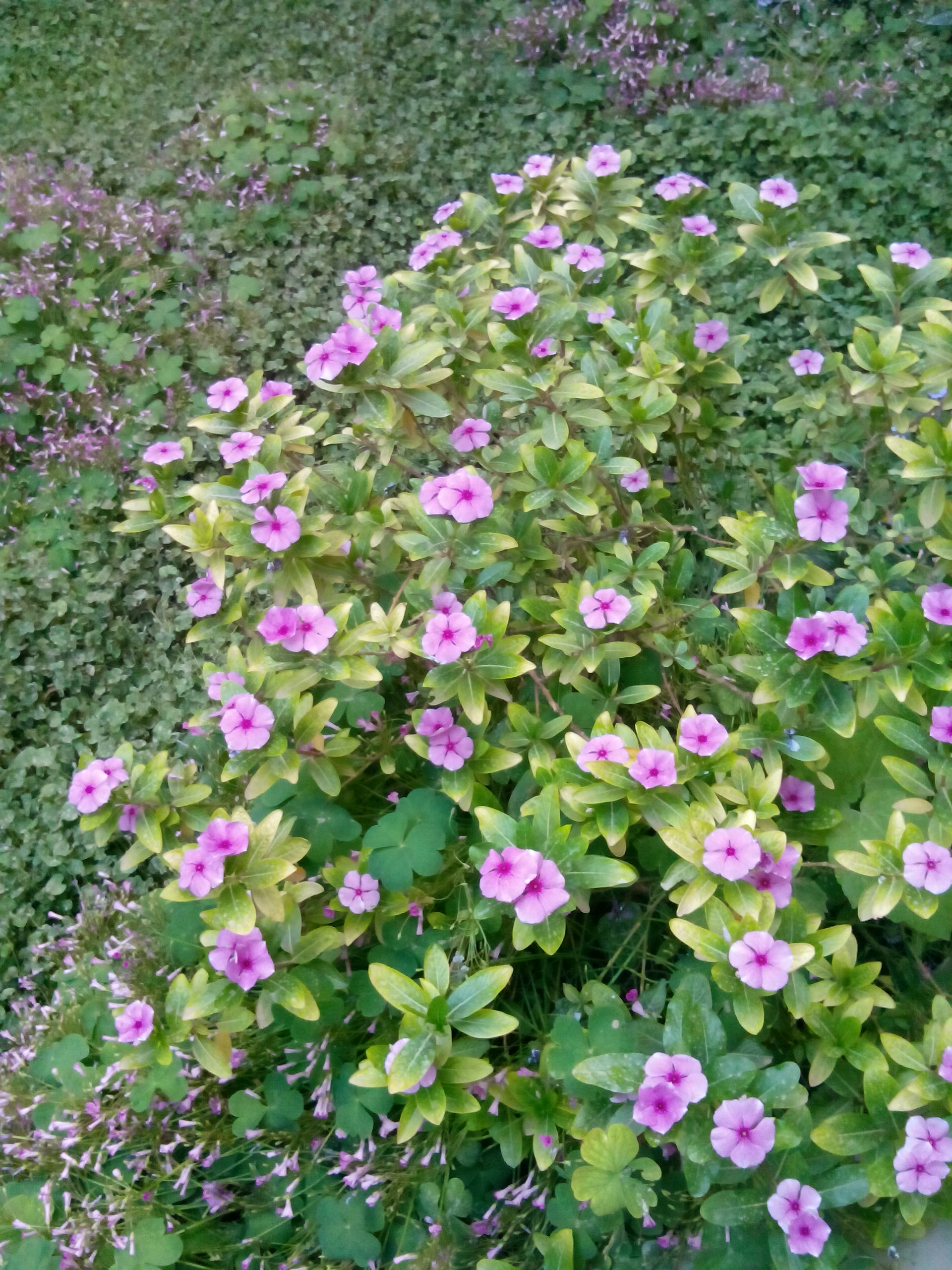 Catharanthus roseus in the Garden in Baghdad